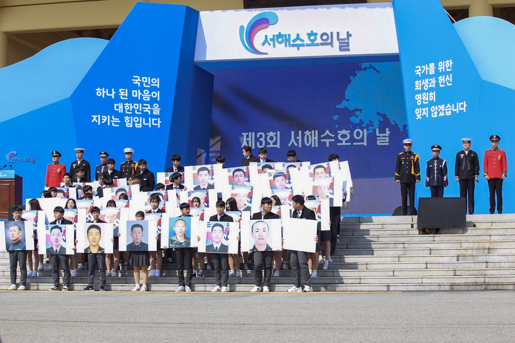 3rd West Sea Defense Day, 2018